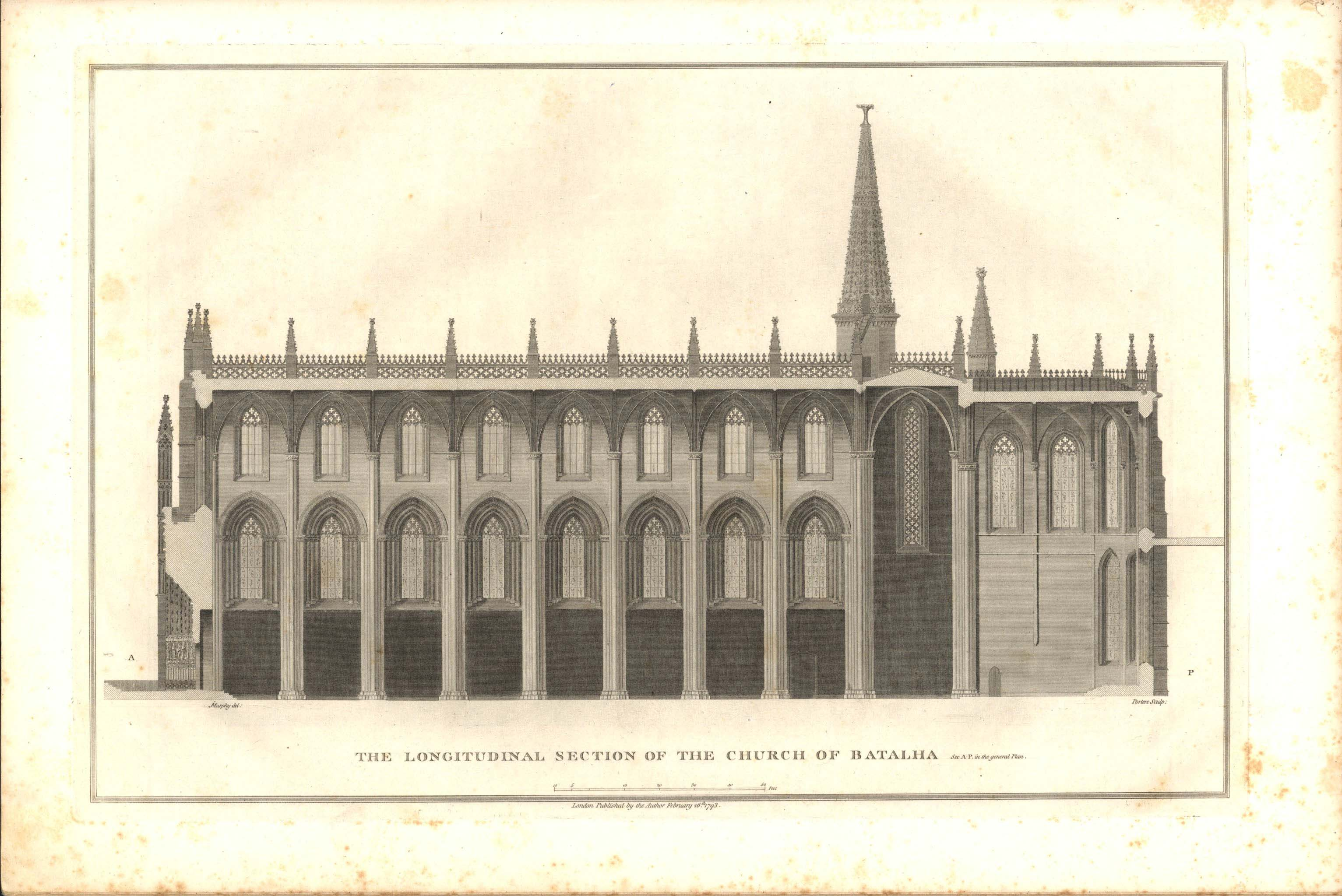 A plate from Murphy's book on the Monastery Church of Batalha